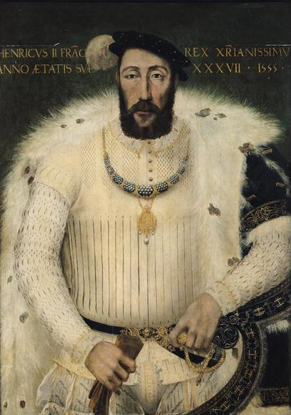 Portrait of Henry II of France (1519-1559), peintre anonyme